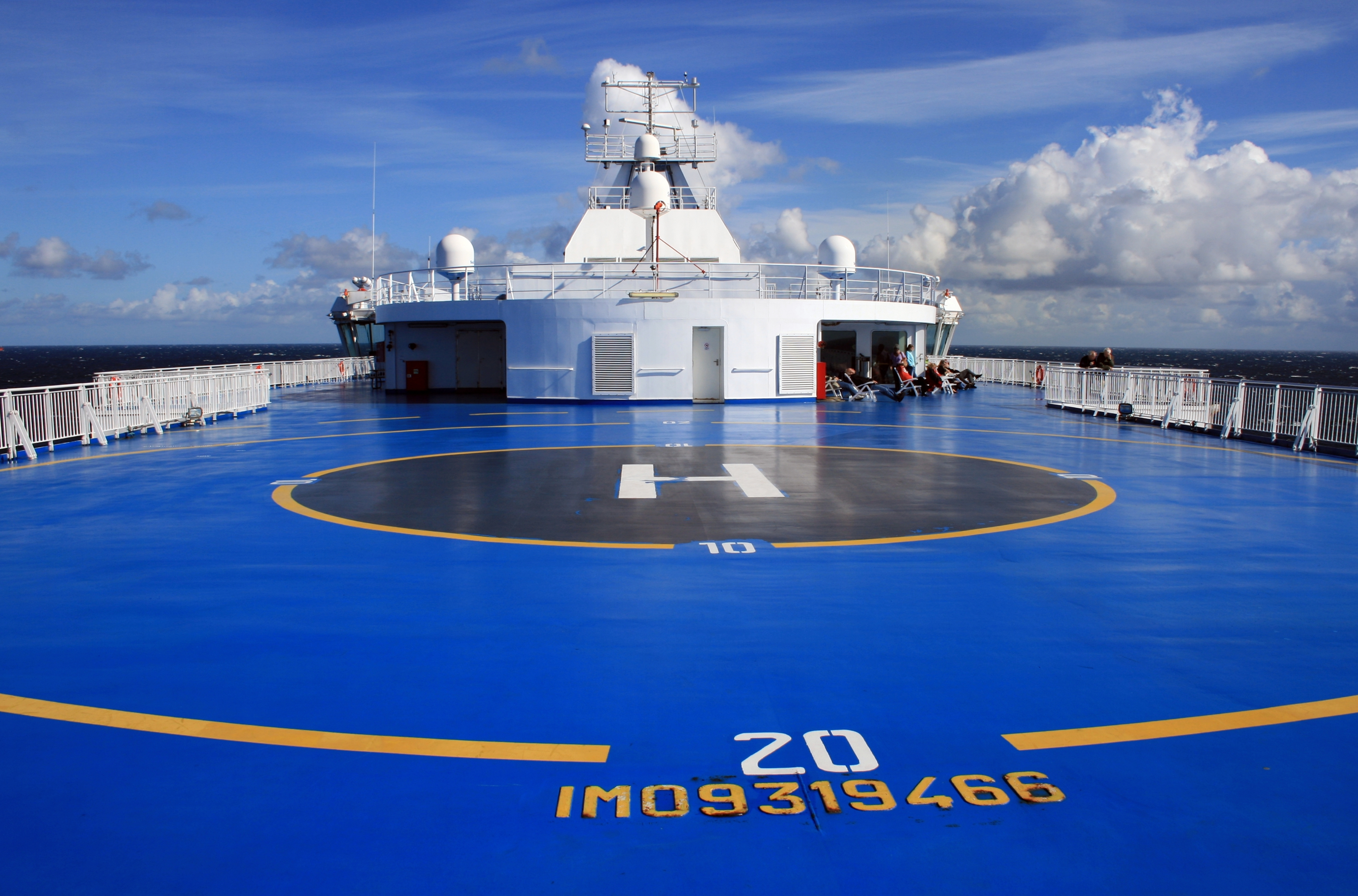 Heliport/Helicopter airport board on ferry "Finnmaid" at baltic sea (route Travemünde (D) - Helsinki (FI)).